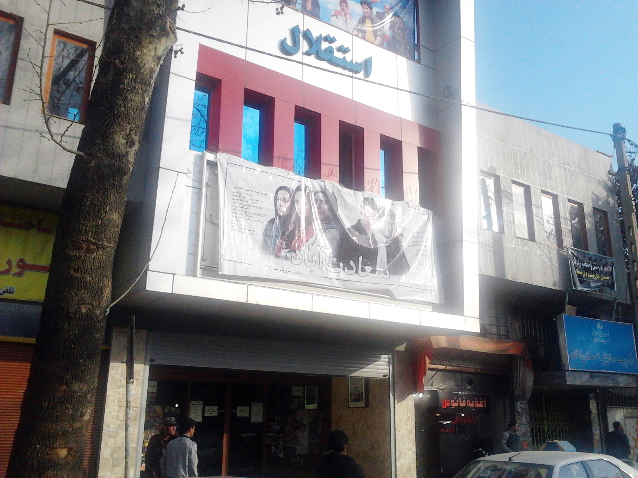 Cinema Esteghlal, Khorramabad, Lorestan province of Iran.